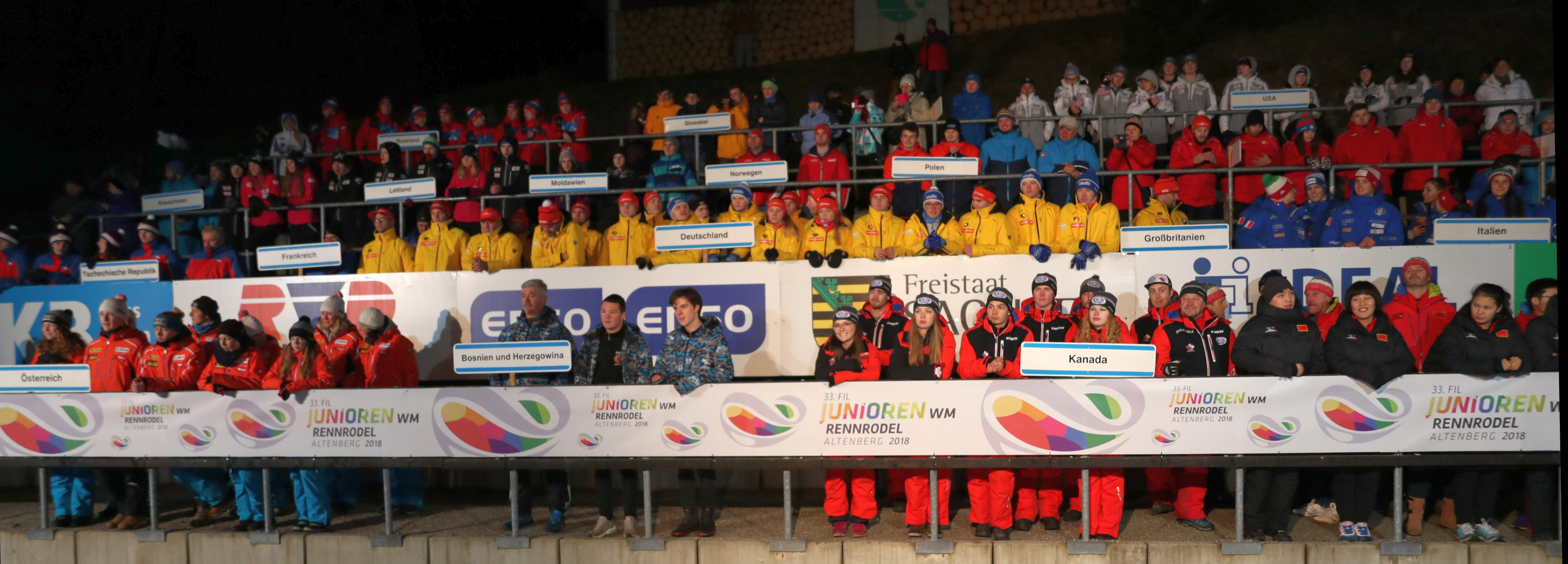 33rd FIL Junior World Championships in Altenberg 2018: Opening Ceremony